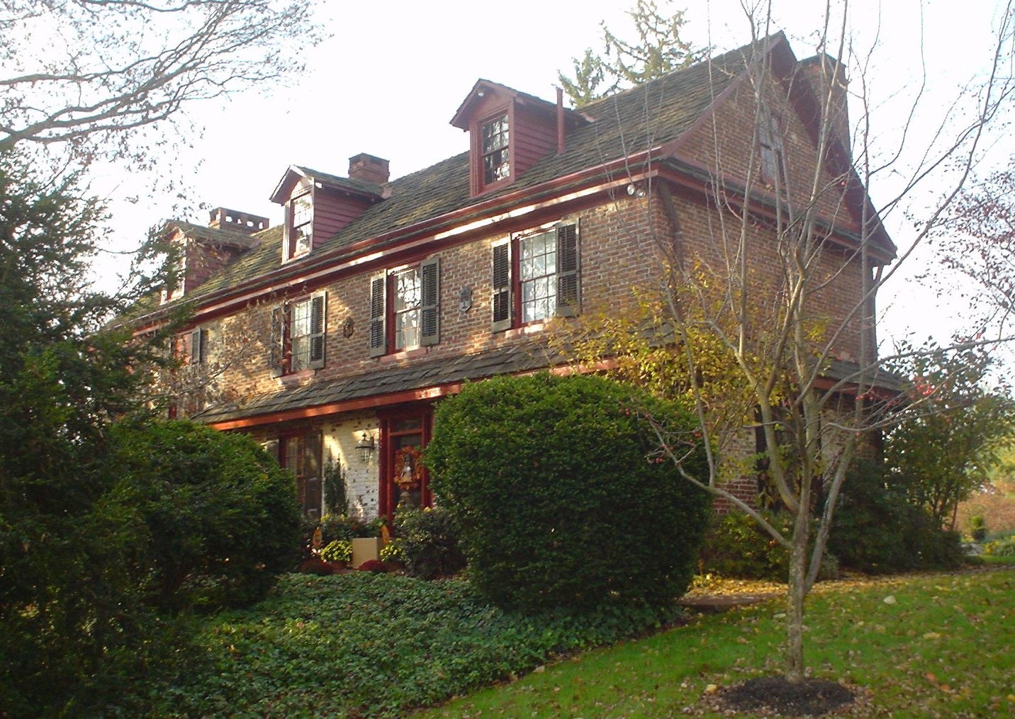 Chamberlain Pennel House on NRHP near Media, PA.